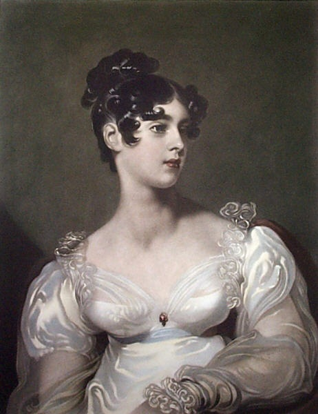 Hand-colored 1891 mezzotint engraving by Henry T Greenhead of Lawrence's portrait of Lady Elizabeth Leveson-Gower, later Marchioness of Westminster, wife of the 2nd Marquess of Westminster. Lawrence's portrait was painted when she was 21, before her marriage. Charles Robert Leslie considered this portrait to be "the most beautiful of Lawrence's female heads," and a perfect example of how his best portraits were sometimes the ones he worked on only briefly. Lawrence completed this portrait in one two-hour sitting. In 1881, Lady Westminster recalled Lawrence and her sitting for the portrait 63 years before: "His manners were what is called extremely 'polished' (not the fault of the present times). He wore a large cravat, and had a tinge about him of the time of George IV., pervading his general demeanor. . . . I should not say he was amusing, but what struck me most, during my two hours sitting in Russell Square, was the perfection of the drawing of his portraits. Before any color was put on, the drawing itself was so perfectly beautiful that it seemed almost a sin to add any color." Lawrence painted her seated half-length, body facing front with head turned in three-quarter profile to right; wearing a sheer gauze over-dress with long full ruffled sleeves over a white satin slip with short puffed sleeves and a thin blue sash under the bust, no jewels except for a small brooch at the bust, and her black hair in a topknot with ringlets.